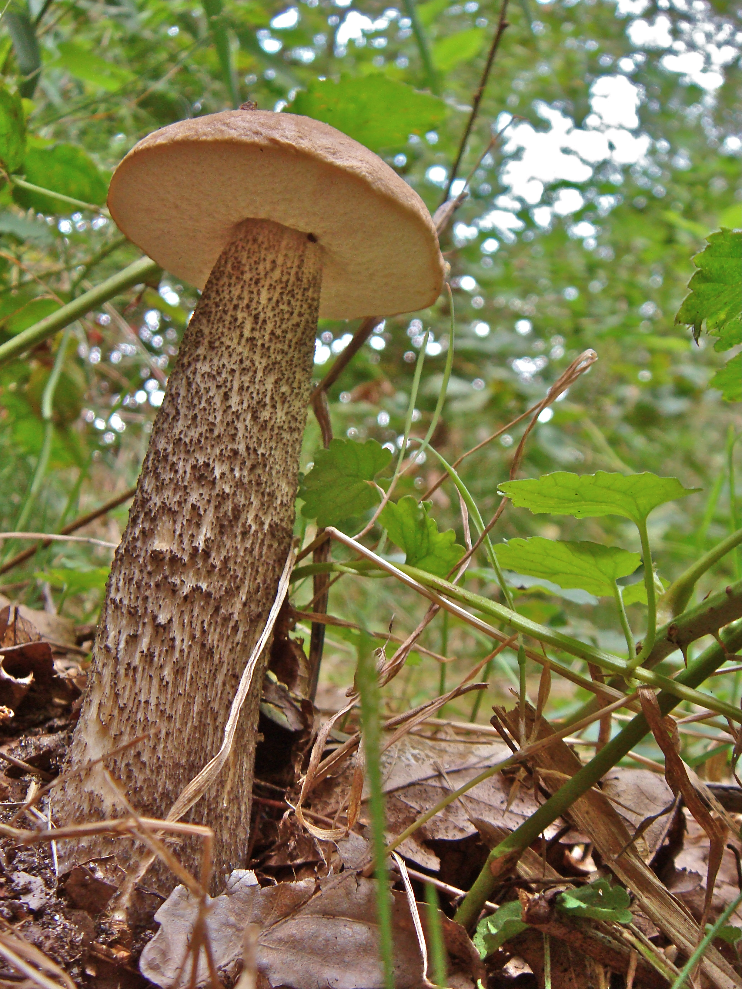 The making of this document was supported by the Community-Budget of Wikimedia Germany.